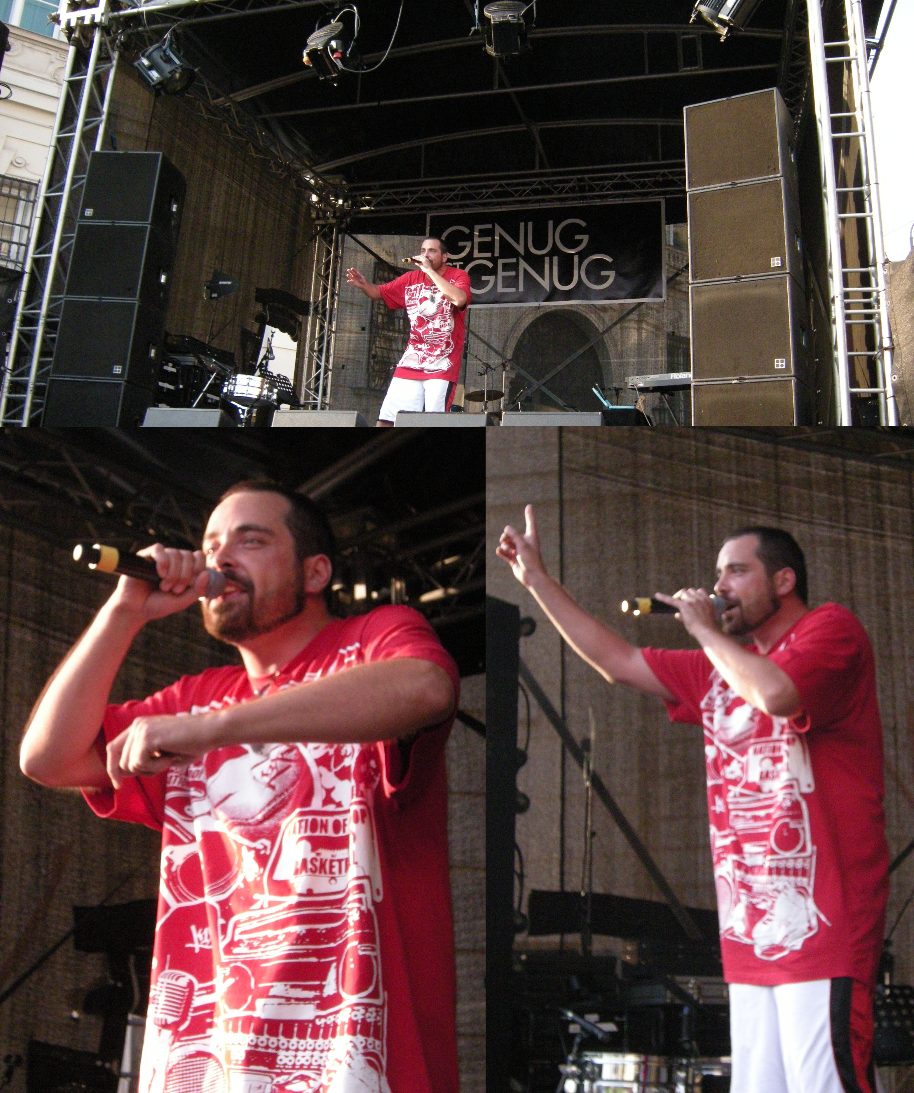 See file name. This was a demonstration of some 10.000-15.000 persons who are against actual Austrian 'policy' on asylum rights. It was supported by a quantity of artists, writers and politicians. Please note that camera's time stamp is set to UT, which is local CEST -2h.